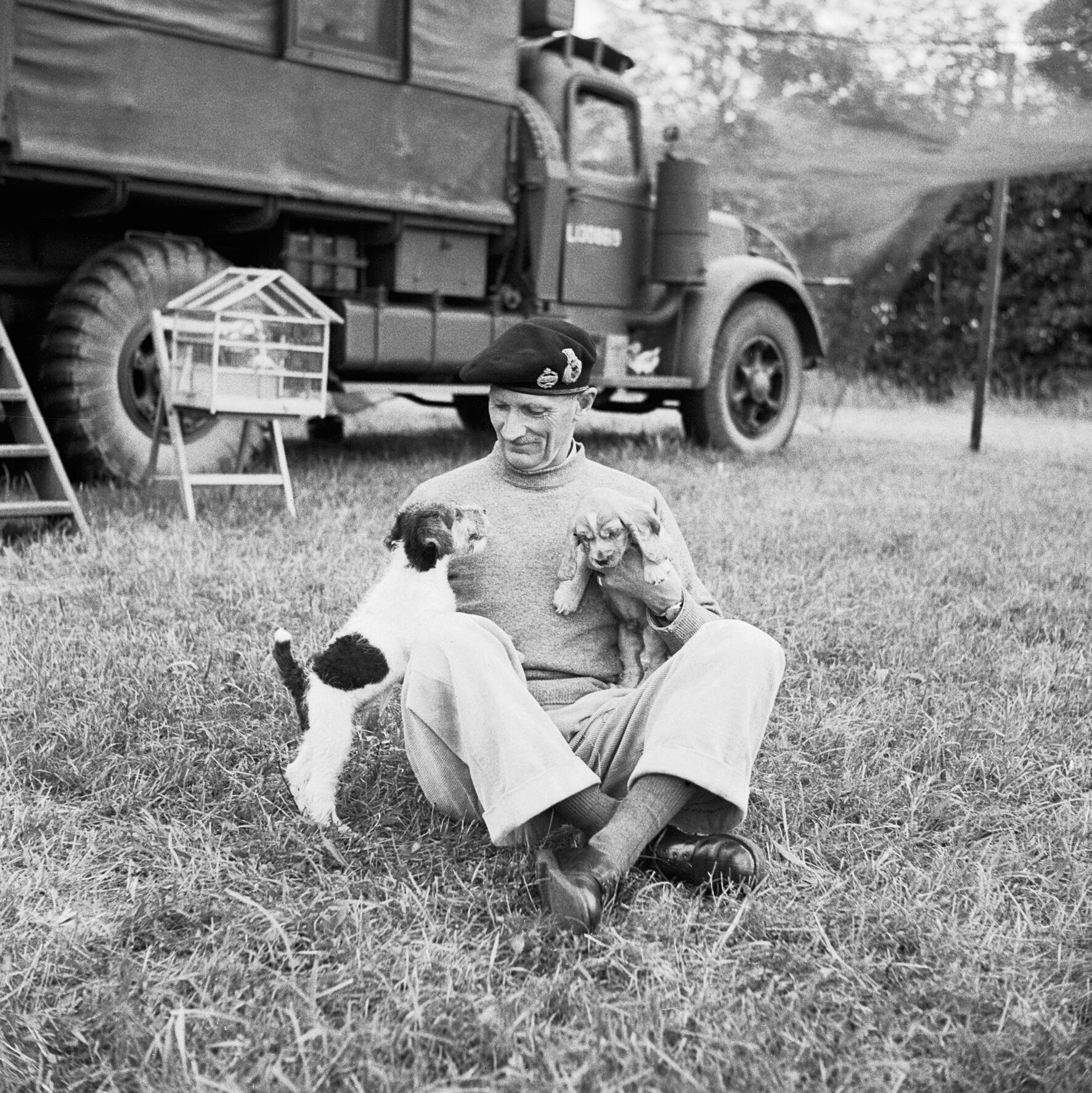 General Montgomery with his puppies "Hitler" and "Rommel" at his mobile headquarters in Normandy, 6 July 1944. Behind can be seen his cage of canaries which also travelled with him. The Second World War 1939 - 1945: Montgomery with his puppies "Hitler" and "Rommel" at his Headquarters at Blay in France. Behind him can be seen his cage of canaries which also travelled with him.